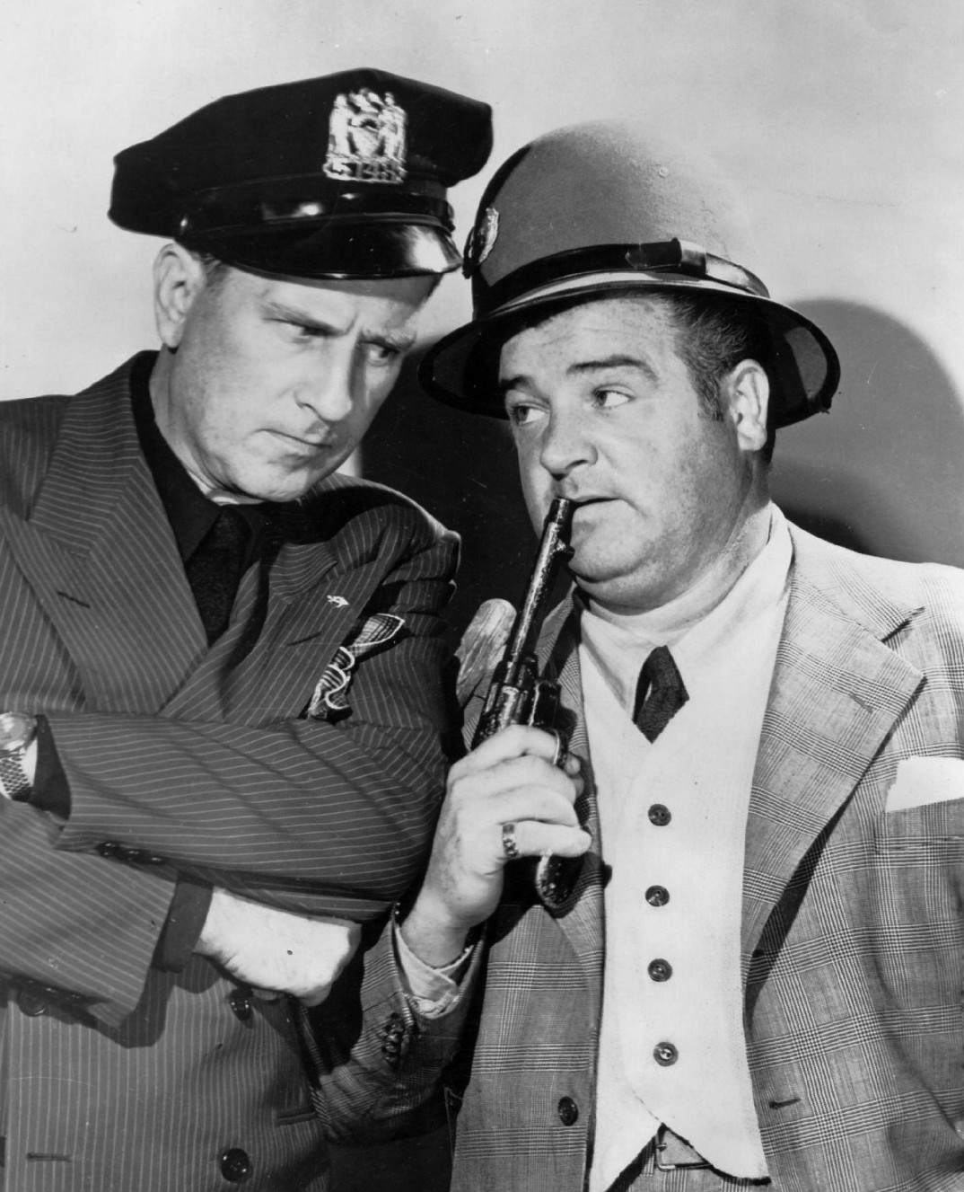 Photo of Bud Abbott and Lou Costello from their NBC Radio program.